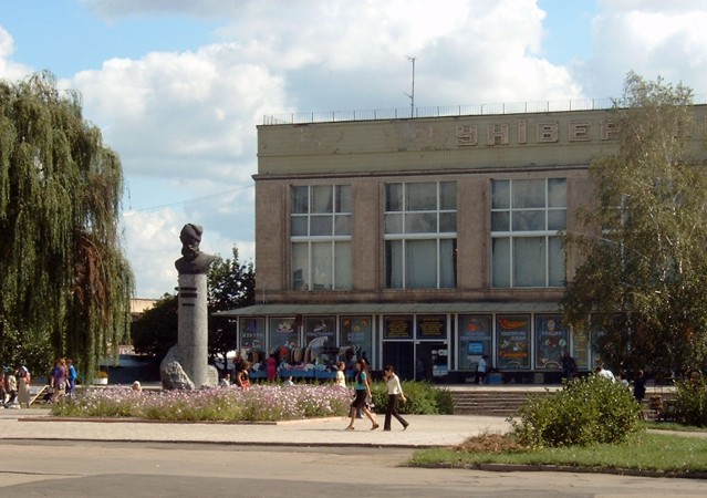 One of Bakhmut`s monuments